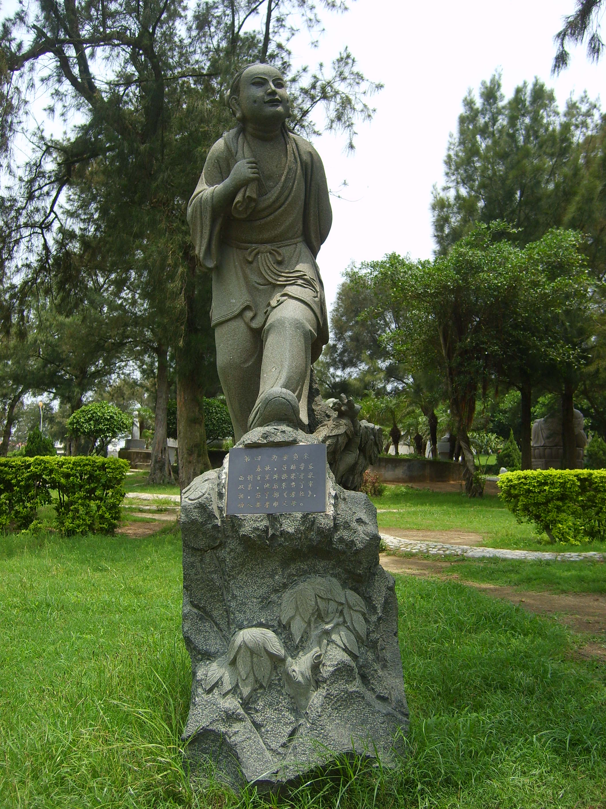 The Twenty-four Filial Exemplars - No. 4